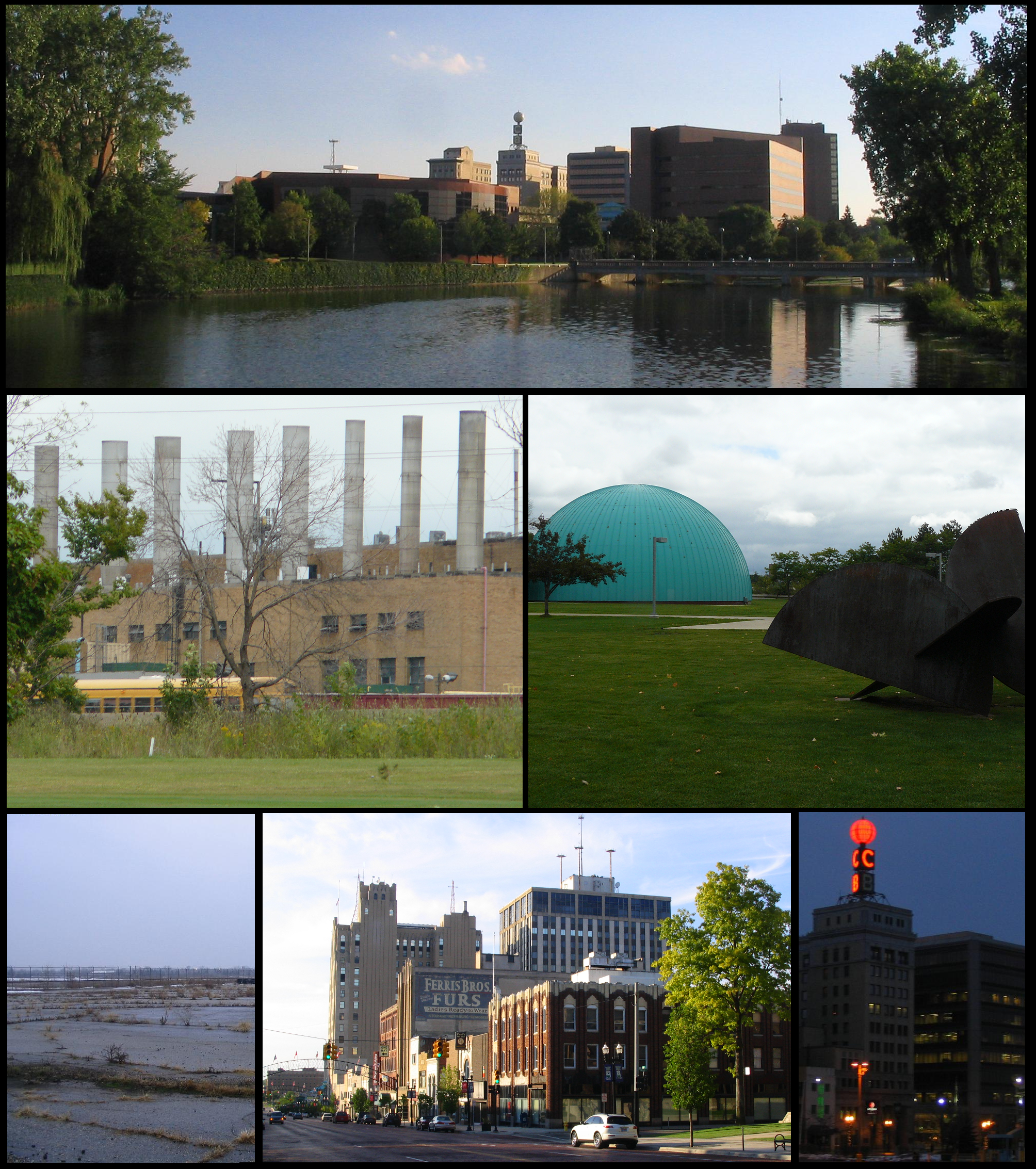 From Top Left: Downtown skyline as seen from the a bridge over the Flint River on the campus of University of Michigan- Flint, GM Powertain and the Swartz Creek Golf Course, Longway Planetarium, Former Site of Buick City, South Saginaw Street, and the Citizen's Bank "Weather Ball."